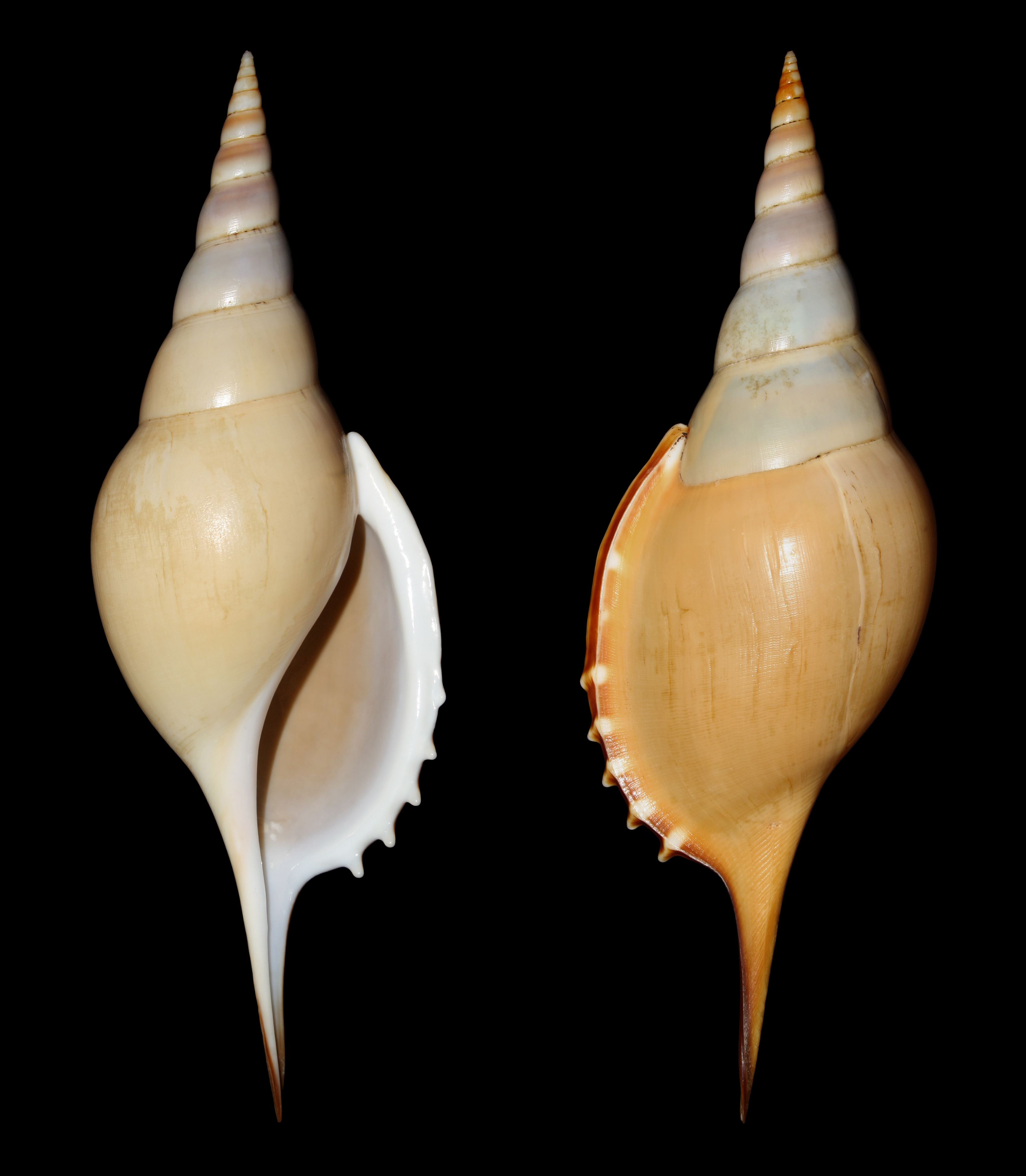 Rostellariella martinii ( Marrat, 1877) (synonym: Tibia martinii (Marrat, 1877) ). 160 mm. Previously on permanent display in a small museum called "Gloriamaris". Locality: Philippines. Acquired July 1988.